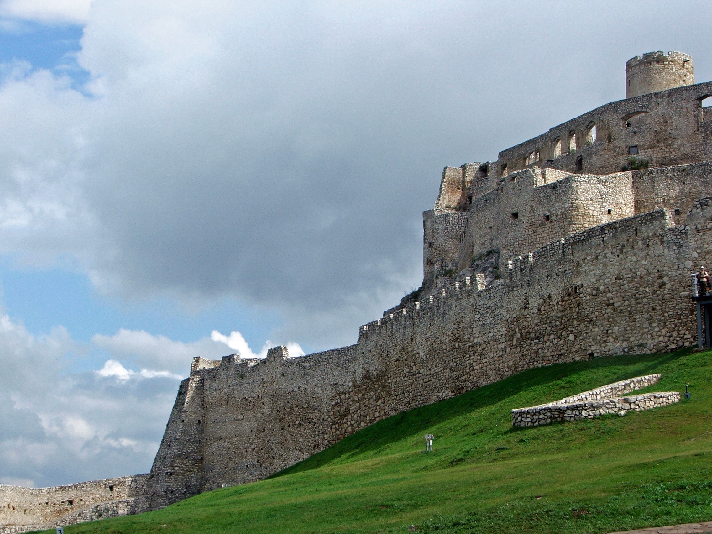 Spis Castle from the yard